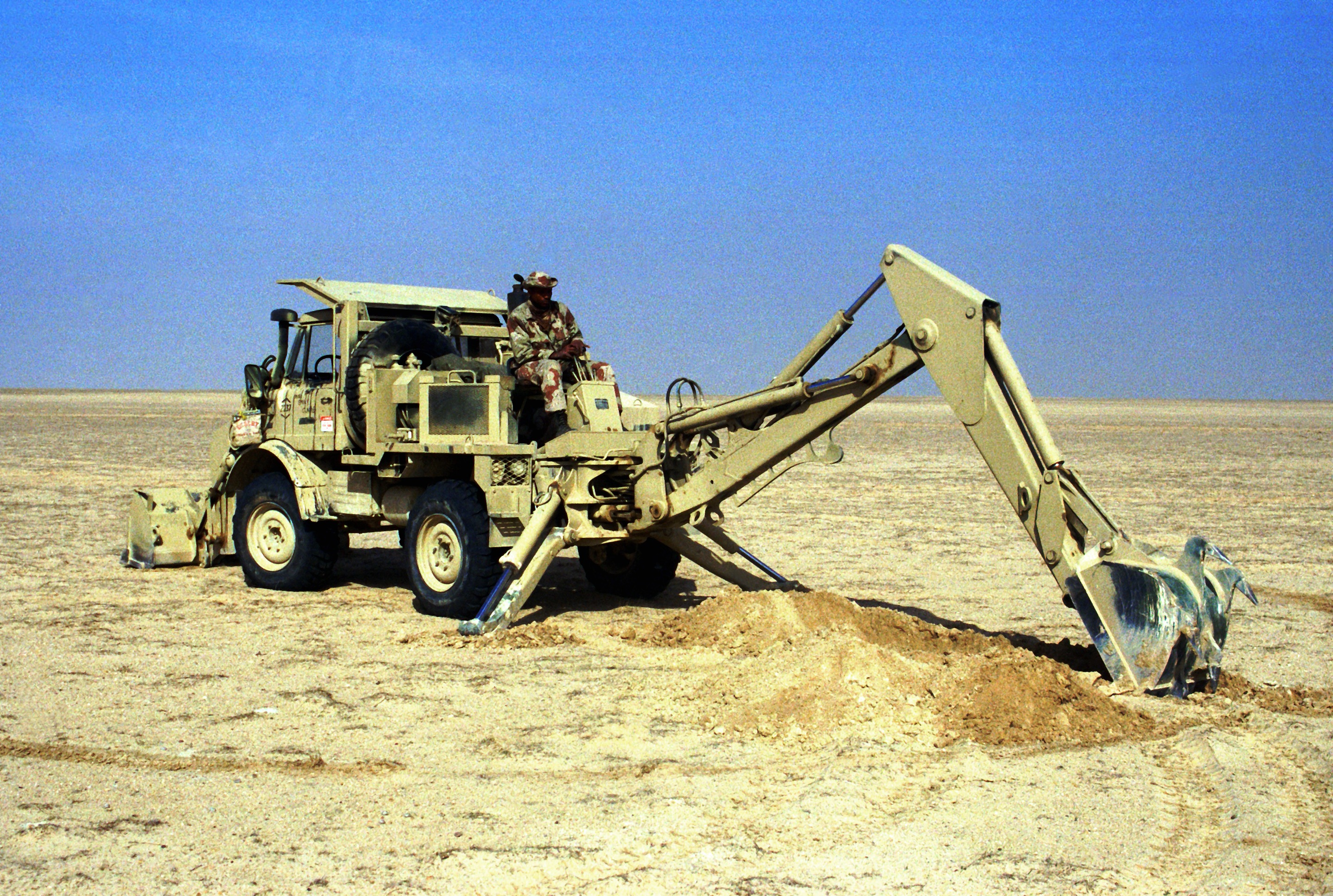 LCPL A.W. Chatman of the 2nd Combat Engineer Battalion operates the backhoe at the rear of a small emplacement excavator (SEE) as he helps dig protective positions for the vehicles and equipment of Task Force Breach Alpha during Operation Desert Storm.